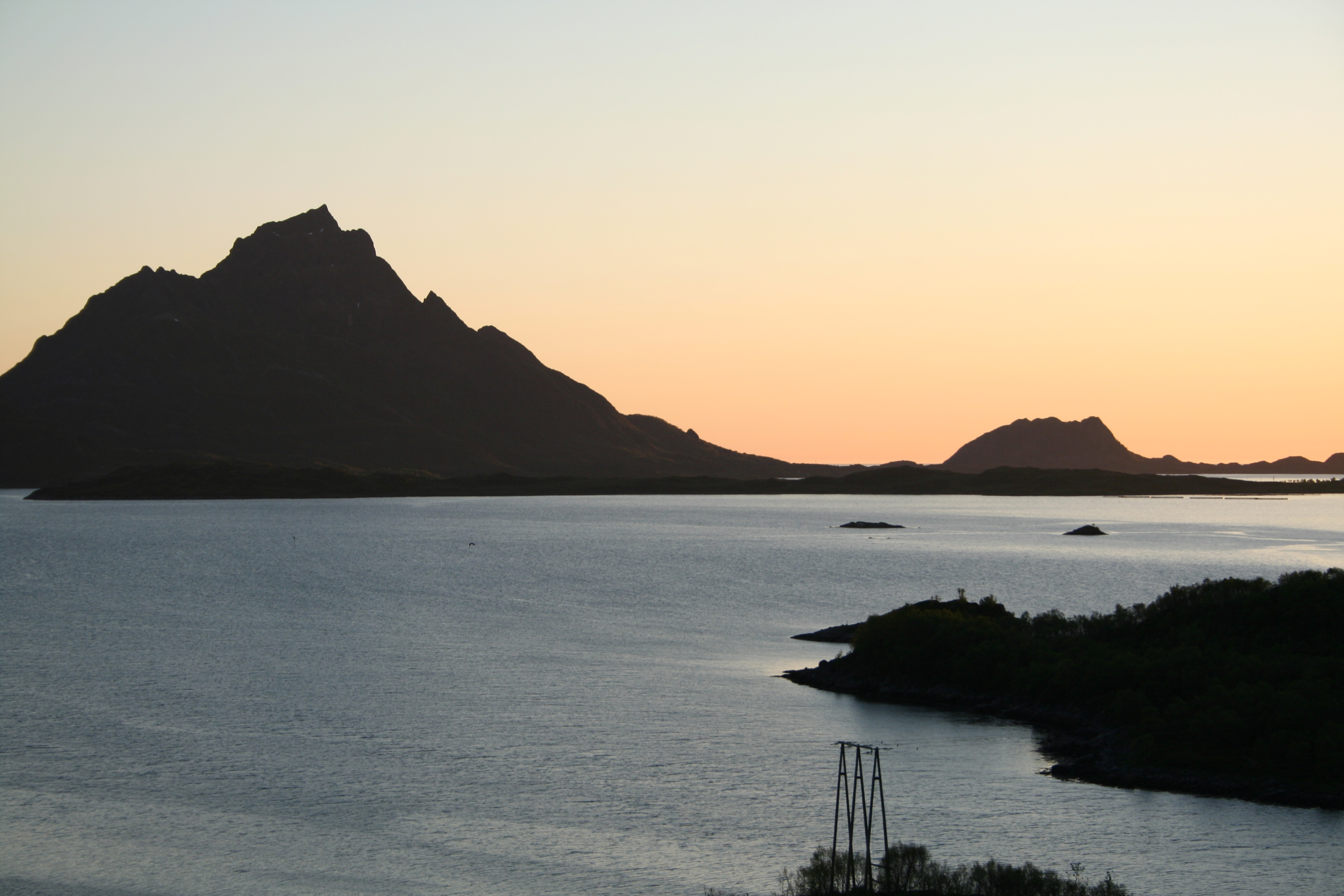 Summer night in near Sandset in Øksnes, Norway. Dyrøya on the left, Børrøya on the right. In the middle is (little) Langøya.